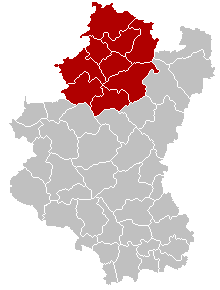 Map of Marche-en-Famenne District in province of Luxembourg, Belgium.Colors changed by me, based on work from Gebruiker:LennartBolks/kaartenhoekje also in PD.